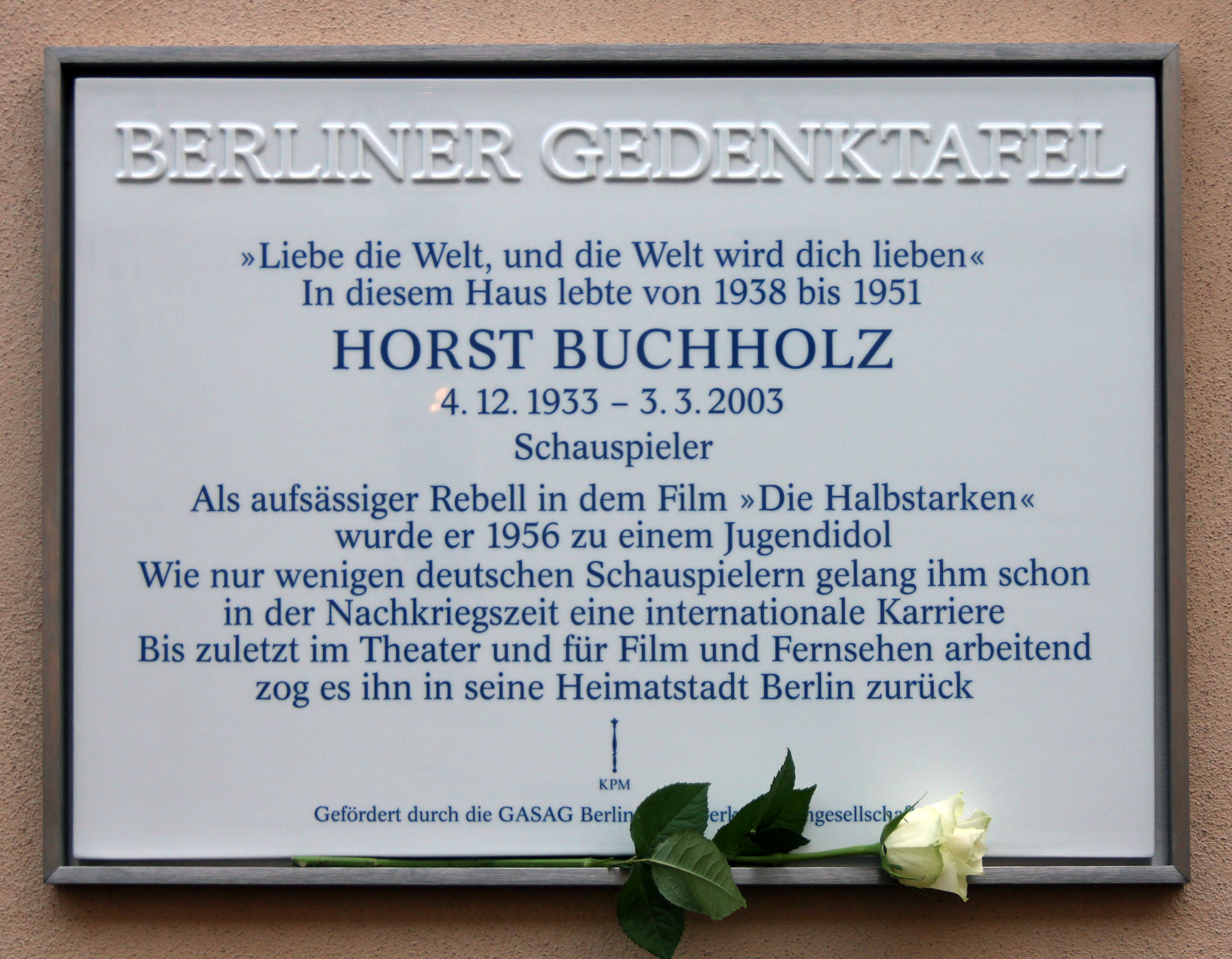 Berlin memorial plaque, Horst Buchholz, Sodtkestraße 11, Berlin-Prenzlauer Berg, Germany